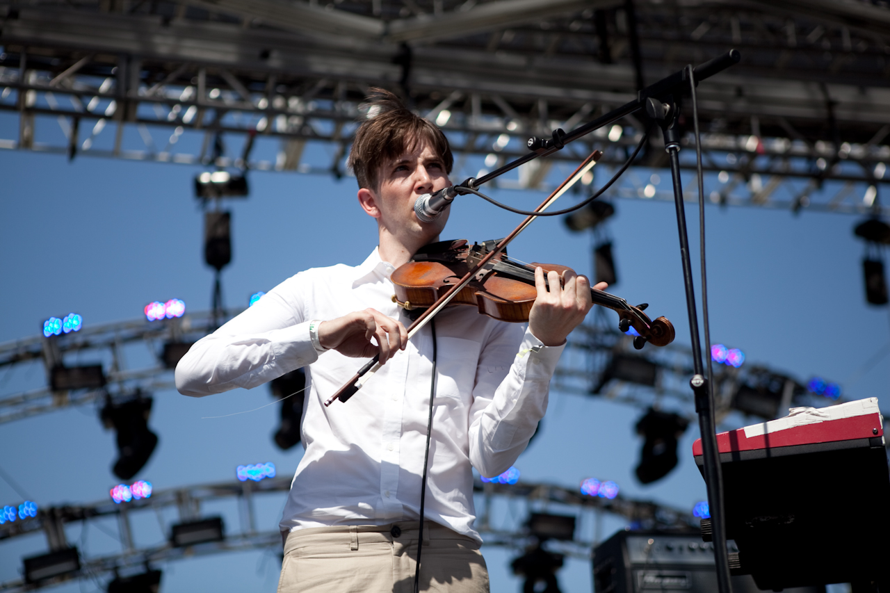 Owen Pallett